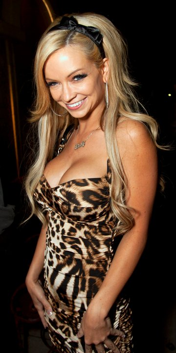 Mindy Robinson at the 2011 Fashion on the Real Charity Event